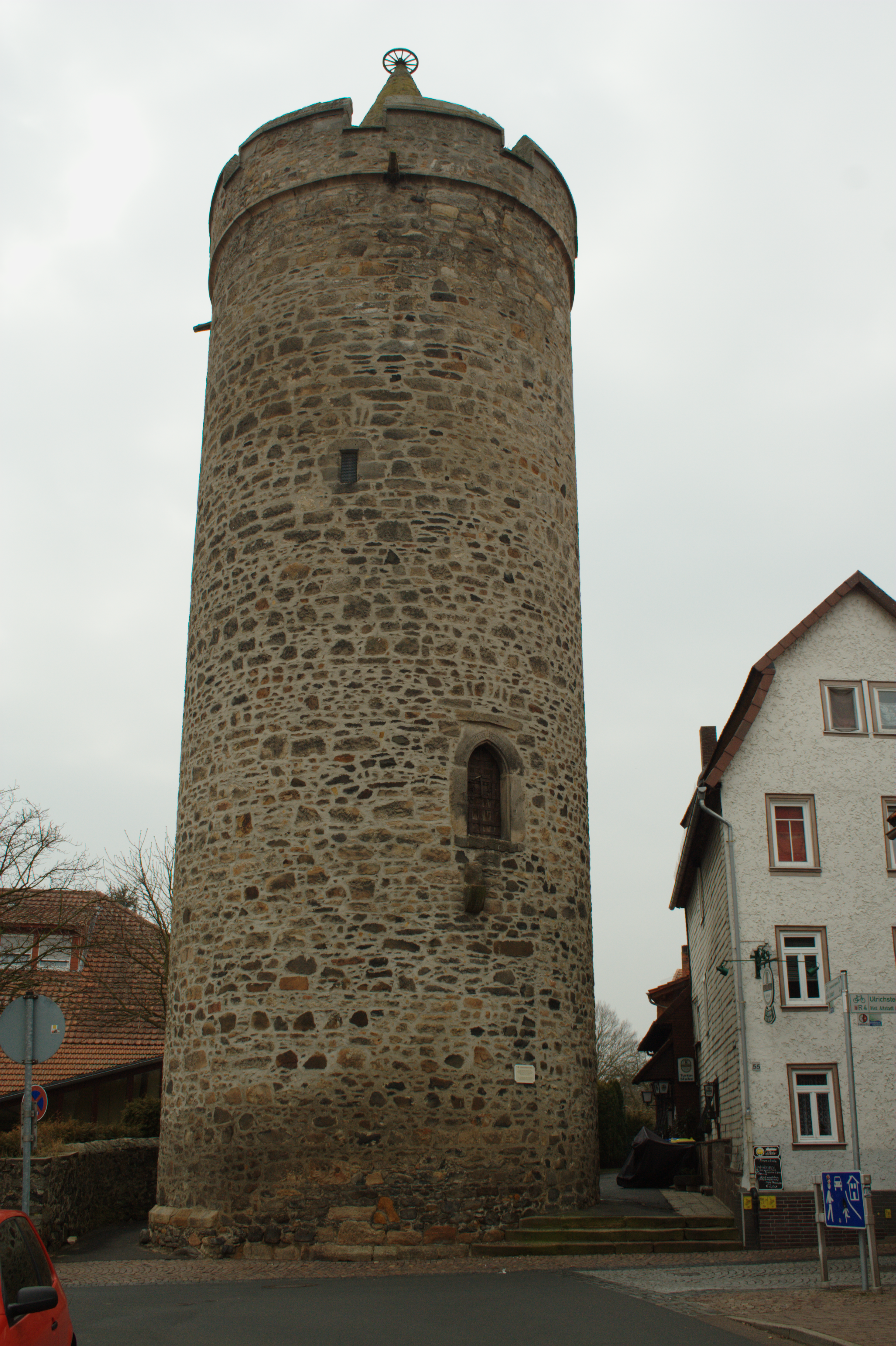 Cultural heritage monument in Germany Hesse Alsfeld - Address: Leonhardsturm